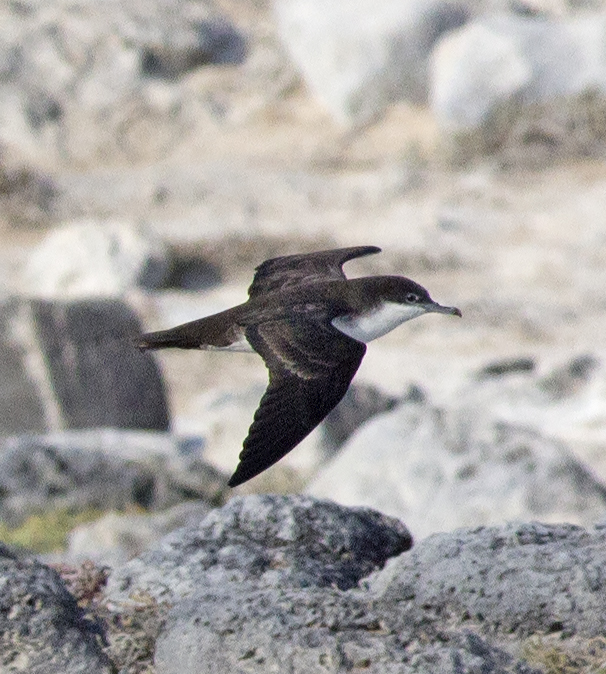 Galapagos Petrel (Pterodroma phaeopygia) 7th. August 2014 South Plaza, Small island east of Santa Cruz, Galápagos, Ecuador.